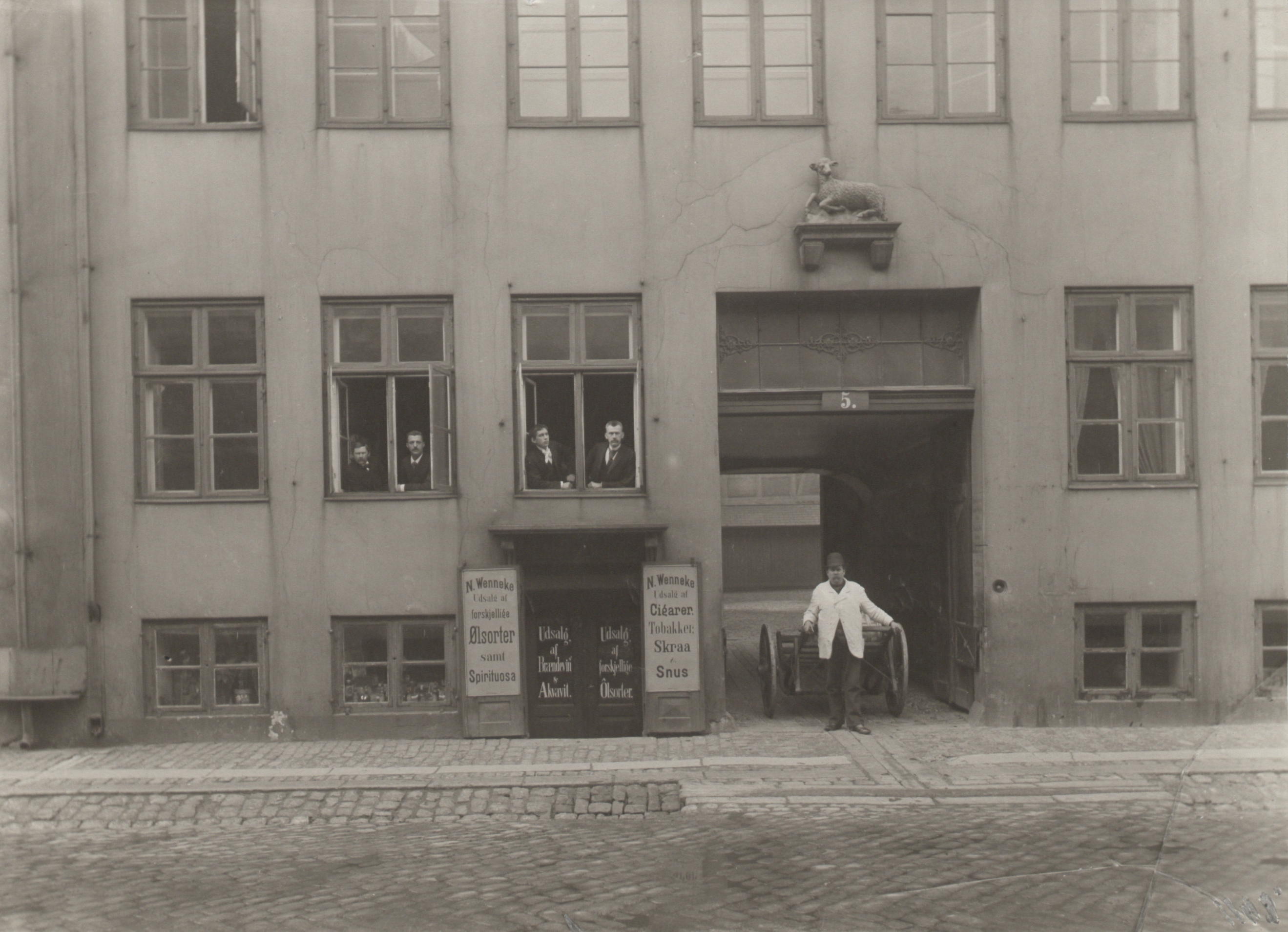 Kvæsthusgade 5 in Copenhagen, Denmark